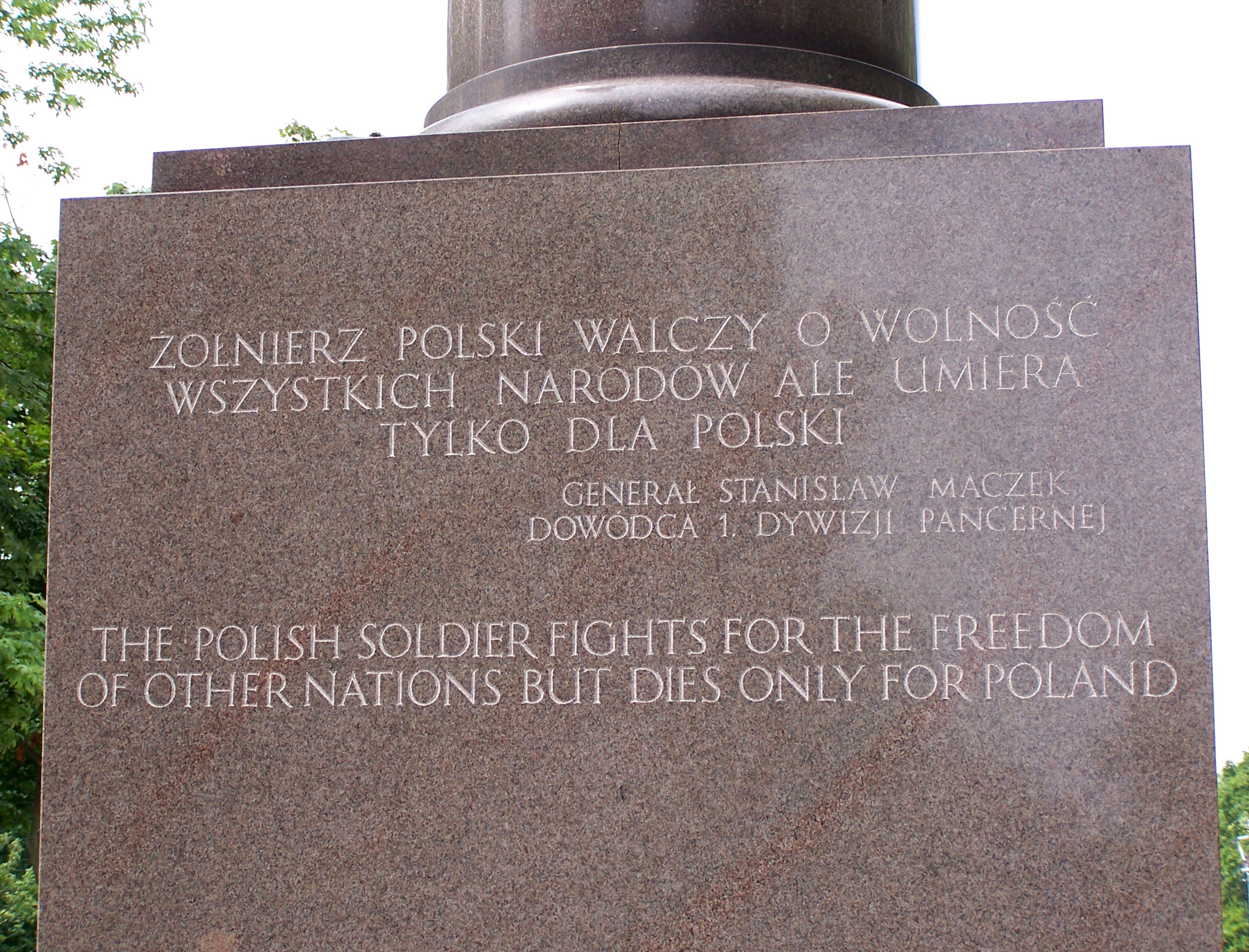 Gen. Stanisław Maczek's quote at the Monument of the Polish 1st Armoured Division in Warsaw, Poland